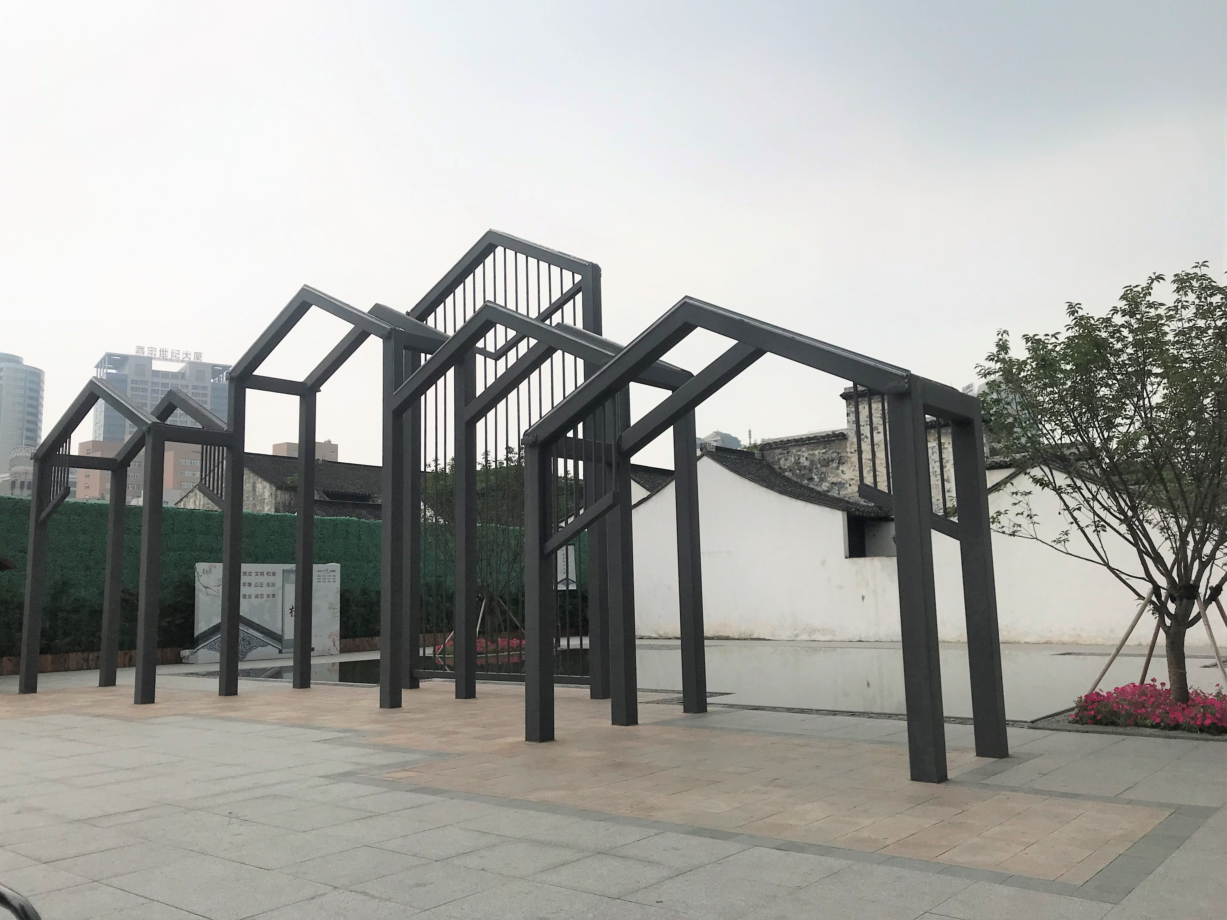 201907 Sculptures at Qingguo Lane